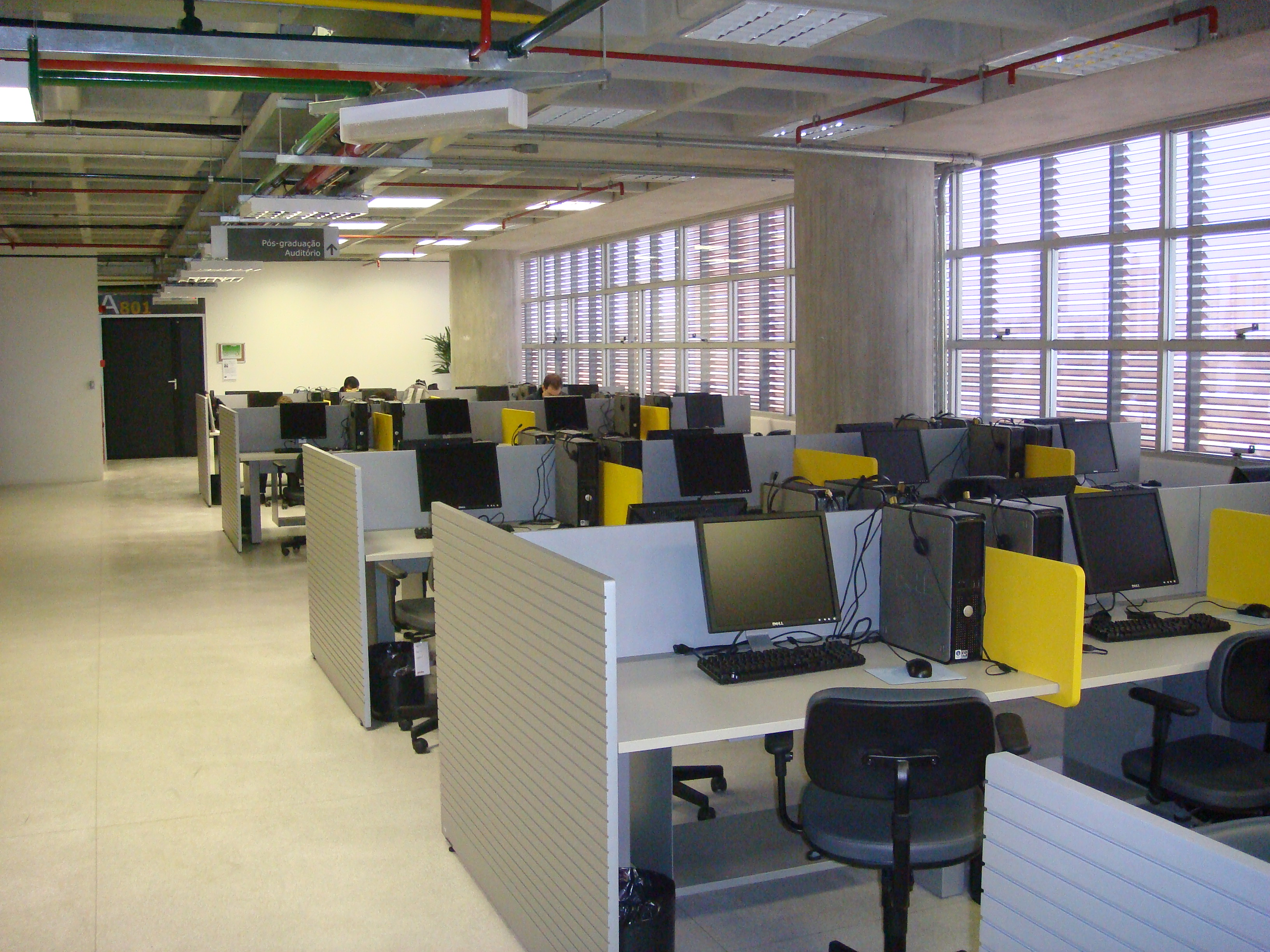 Computers used by the post-graduating studants of UFABC.